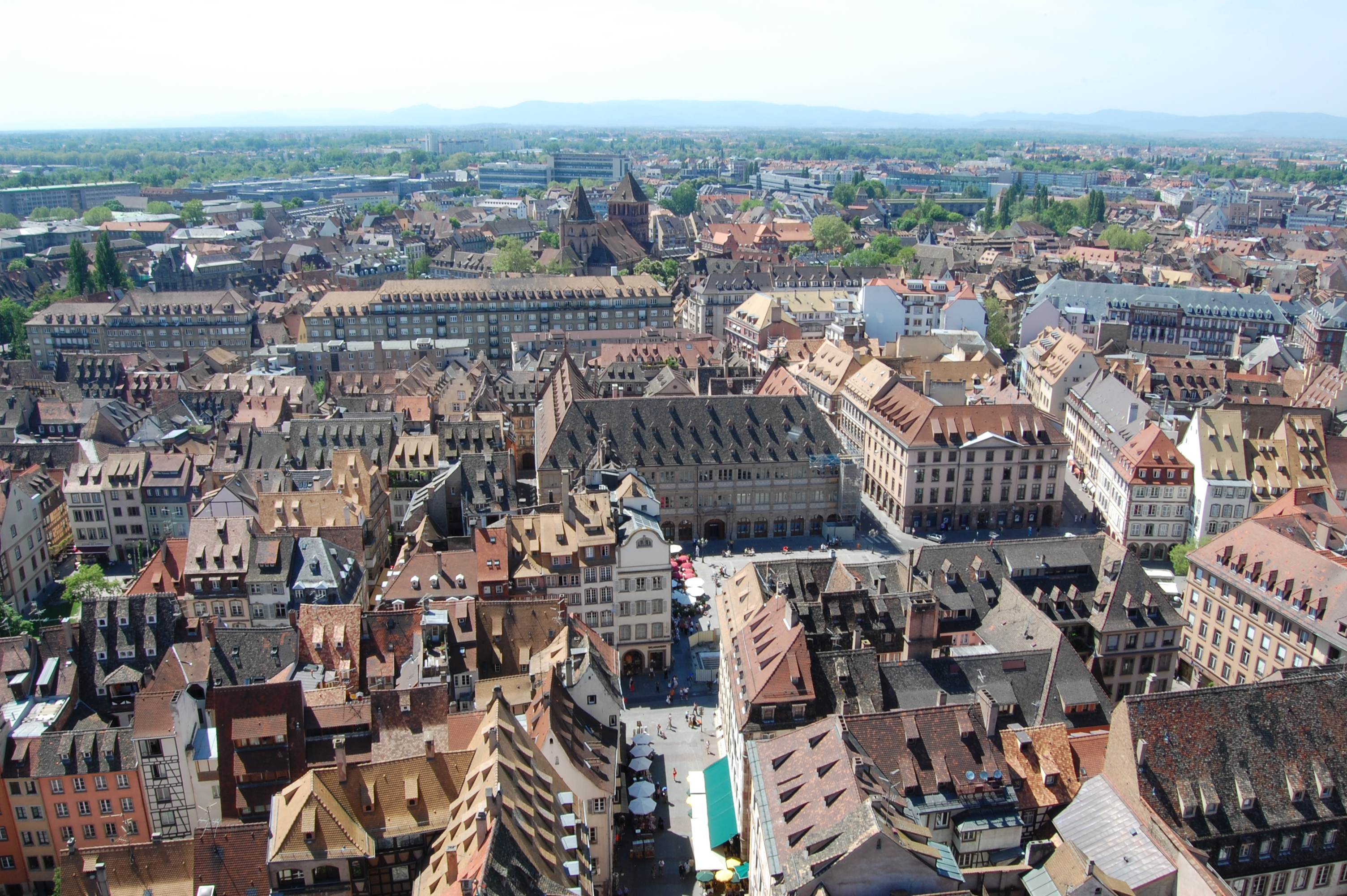 View From Cathedrale Notre Dame in Strasbourg